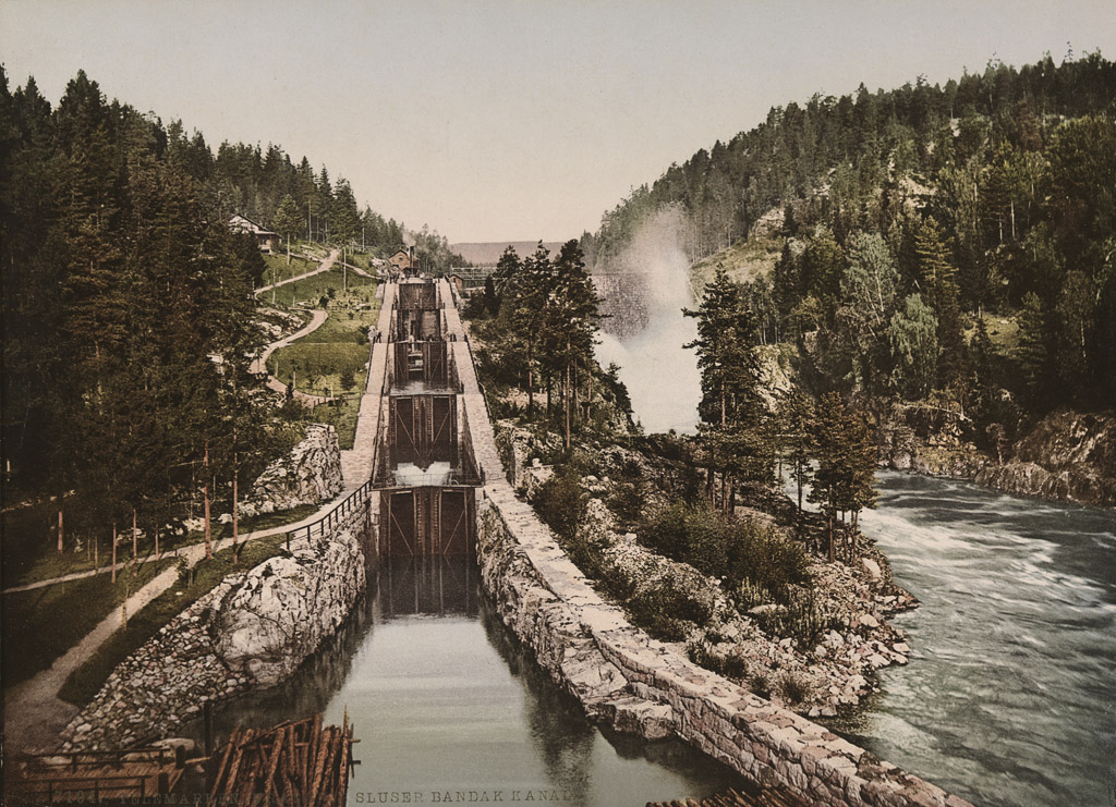 Tittel / Title: 7104. Telemarken. Vrangfos Sluser Bandak Kanal Dato / Date: ca 1890-1900 Fotograf / Photographer: ukjent / unknown Sted / Place: Telemark, Nome, Vrangfoss Eier / Owner Institution: Nasjonalbiblioteket / National Library of Norway Lenke / Link: Bildesignatur / Image Number: bldsa_FA0684